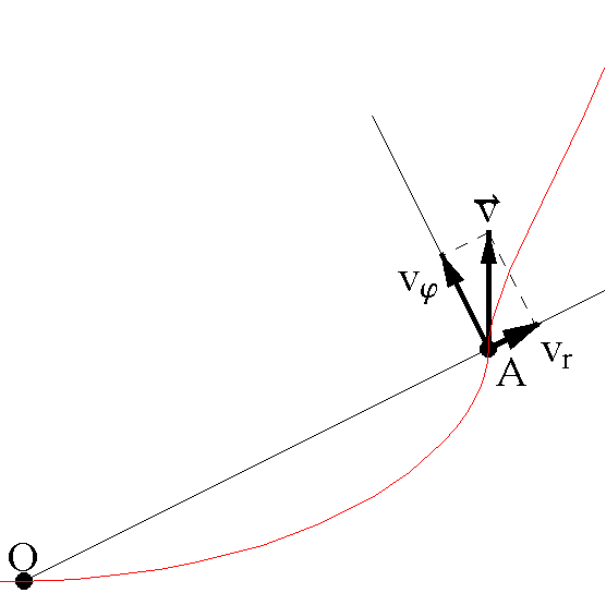 Polar components of the velocity of the material point